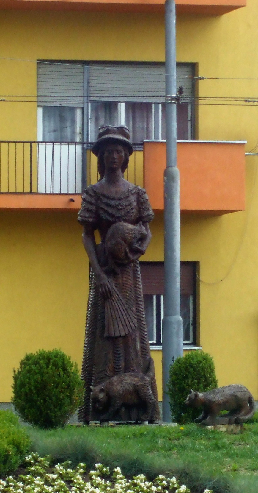 Wood statue of Paulina Hermann in Osijek, Croatia.